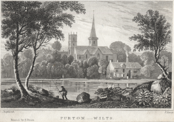 Copper engraving of Purton, Wiltshire, England, printed by E. Brain